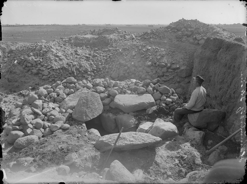 Man at the excavation of the "Bonhög" Mound from the Bronze Age, with a stone chamber tomb, The mound was excavated in 1892 by Oscar Montelius, archaeologist and head of the National Heritage Board in 1907-1913. He could be the photographer.